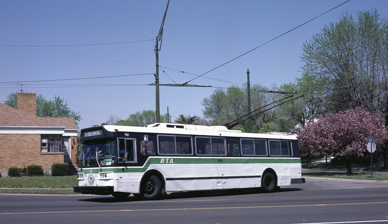 Trolleybus 901 of MVRTA (now GDRTA), of Dayton, Ohio, turning onto Dorothy Lane from Shafor Blvd. (in Kettering), on a short-turn trip on route 5-Far Hills, in 1987. It was starting a trip north on route 5-Salem Avenue to Hillcrest Avenue (a route later renumbered 8). It is a 1976 Flyer E800 trolleybus.